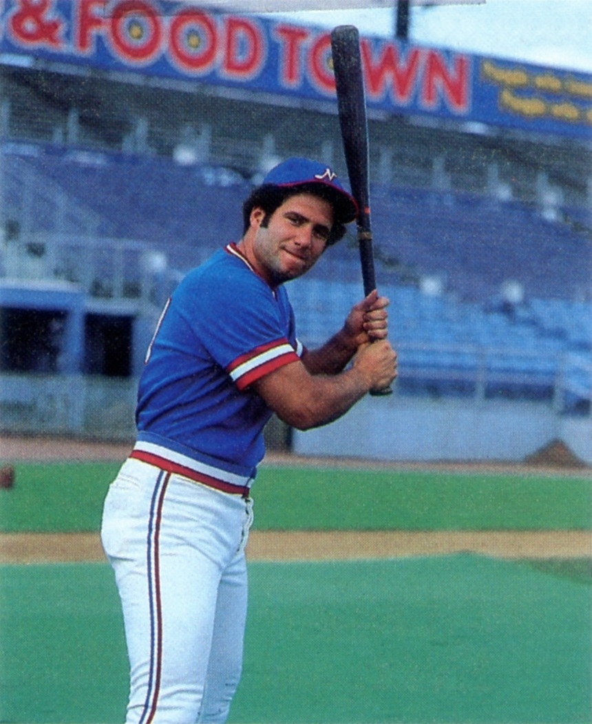 First baseman Pete Dalena of the 1983 Nashville Sounds Minor League Baseball team of the Southern League